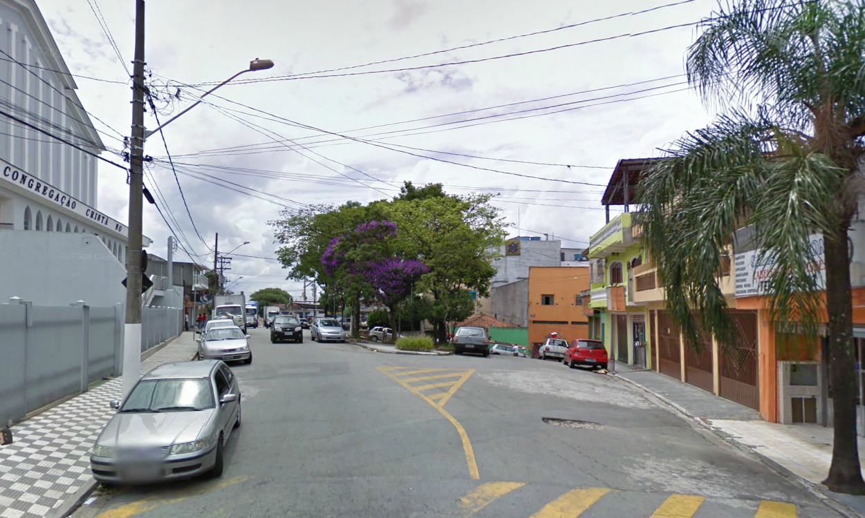 Foto de uma rua típica da região do bairro do Jardim Santo Antonio, localizada na região Sul de Osasco-SP